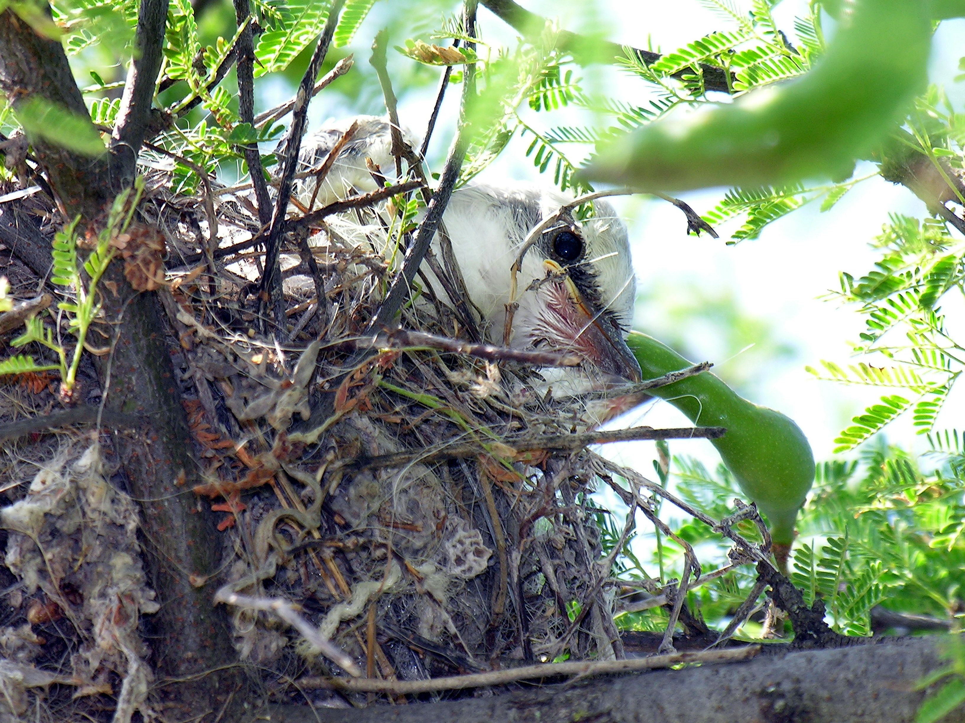 Young Sissortail Flycatcher looking at me over the edge of his nest.